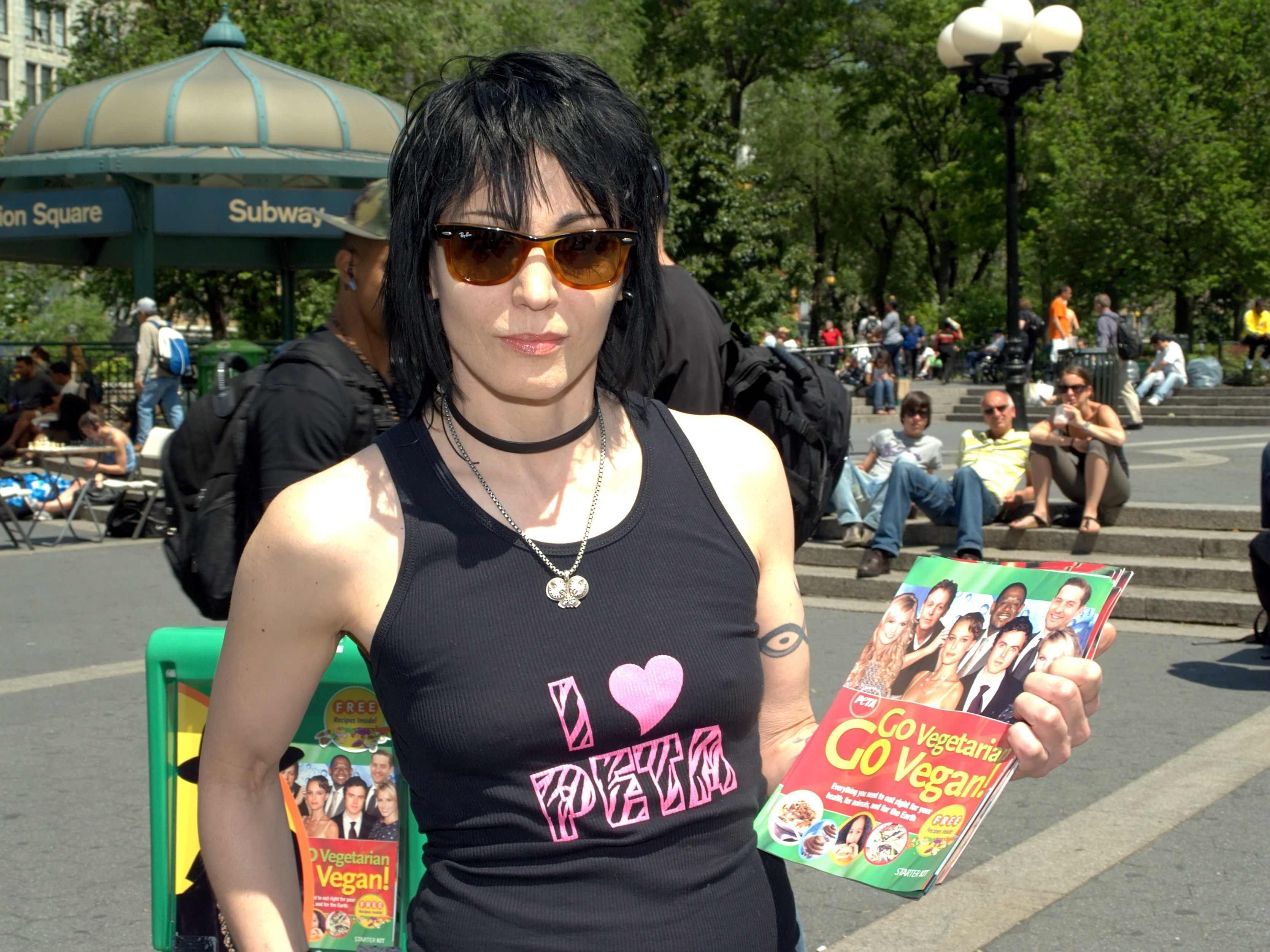 Joan Jett in New York City's Union Square. Photographer's post about event.